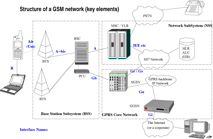 This diagram shows the simplified structure of a GSM network.